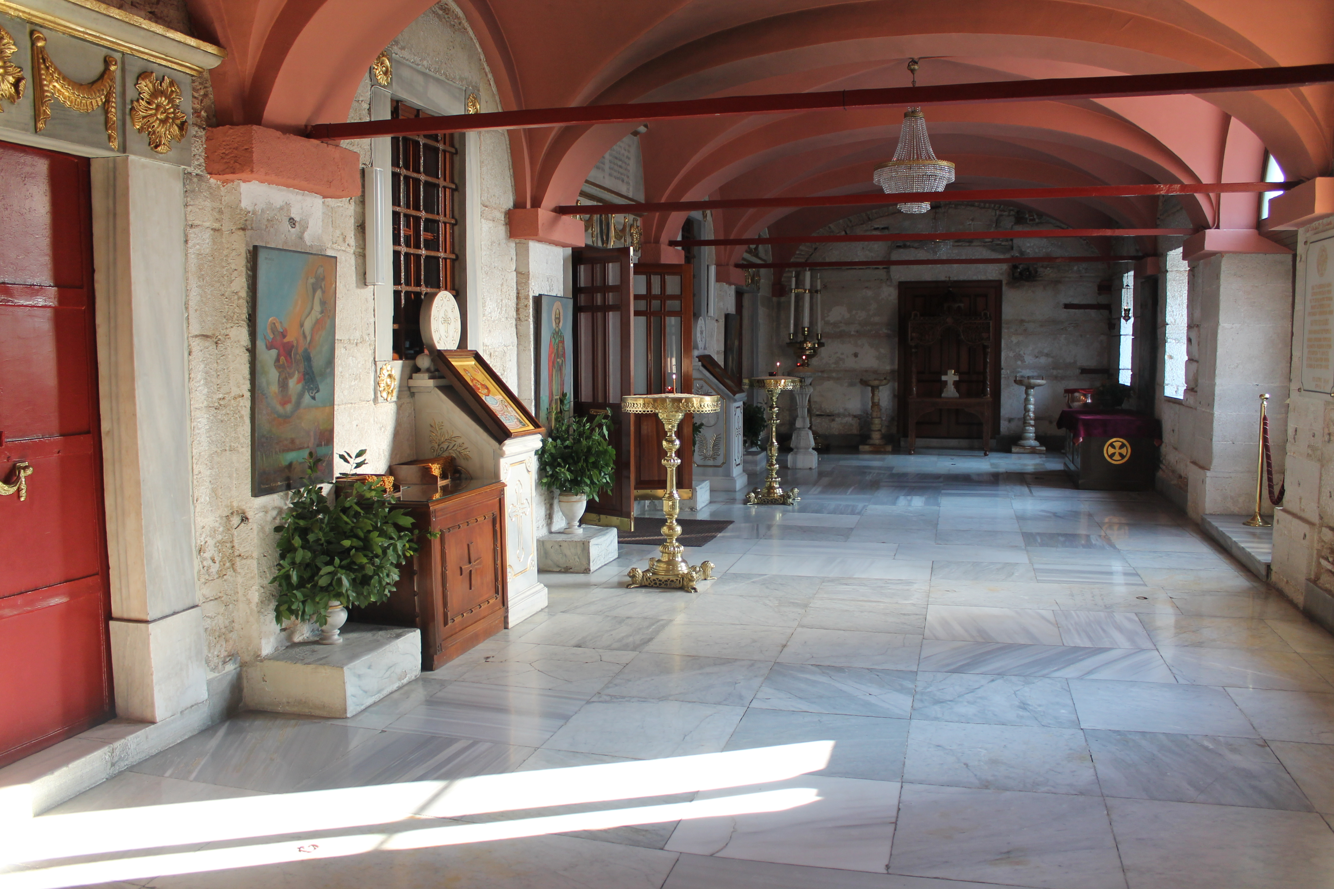 Church of St. Mary of the Source